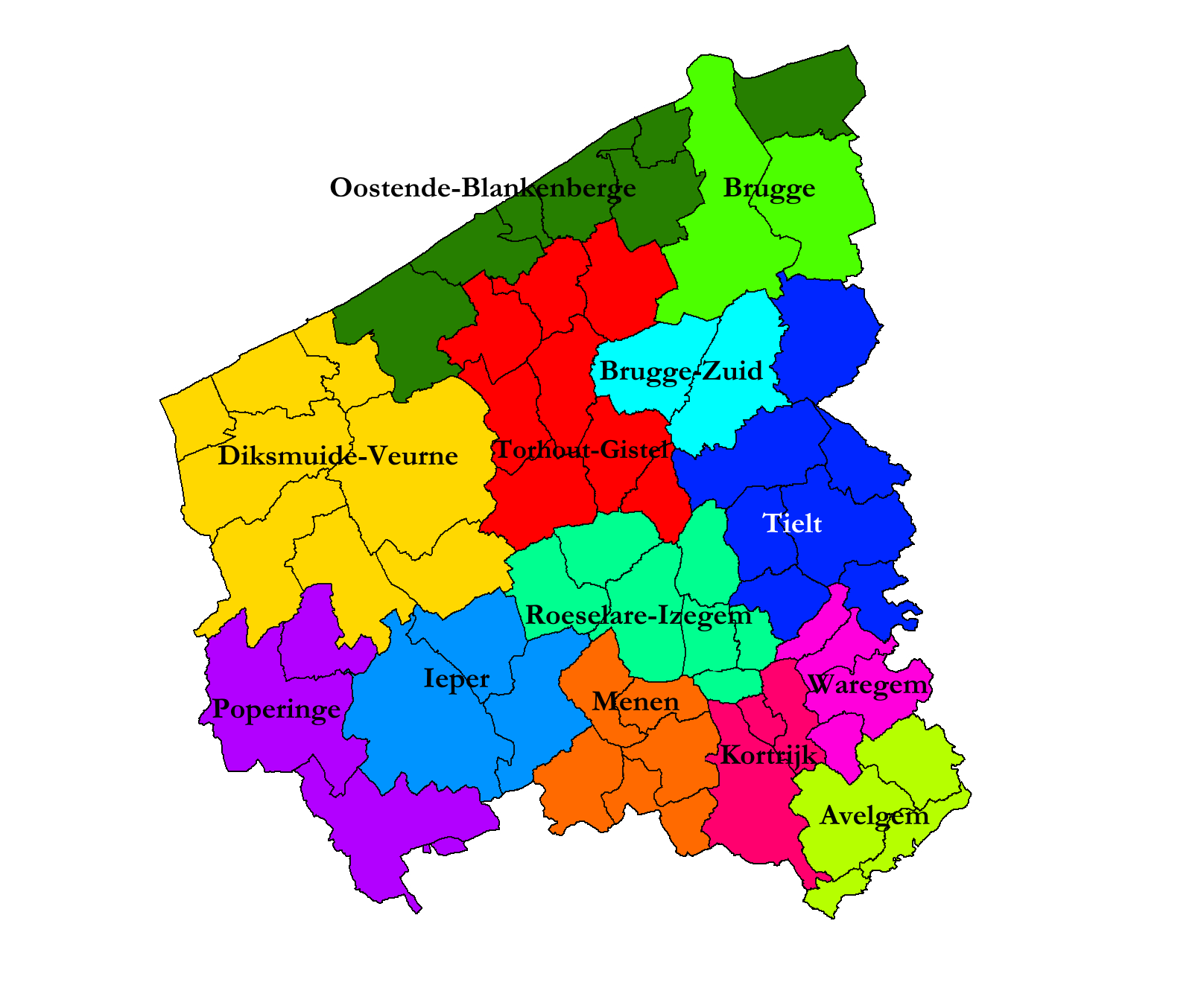 These are the 13 deaneries of the diocese of Bruges in augustus 2020.